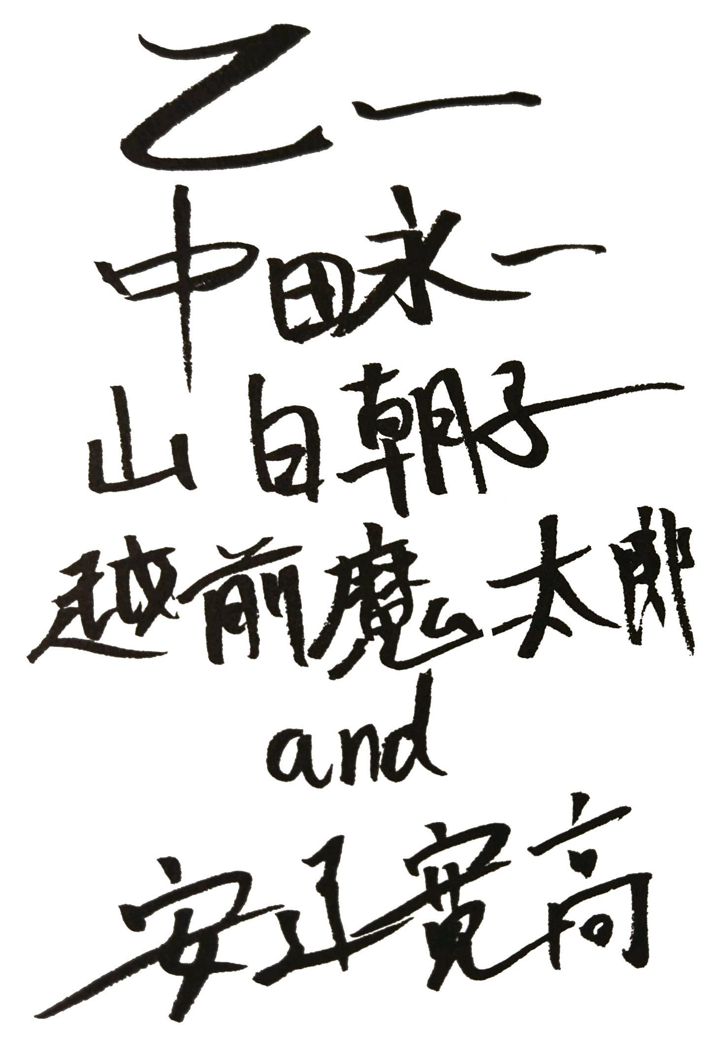 5 versions of Otsuichi's signatures